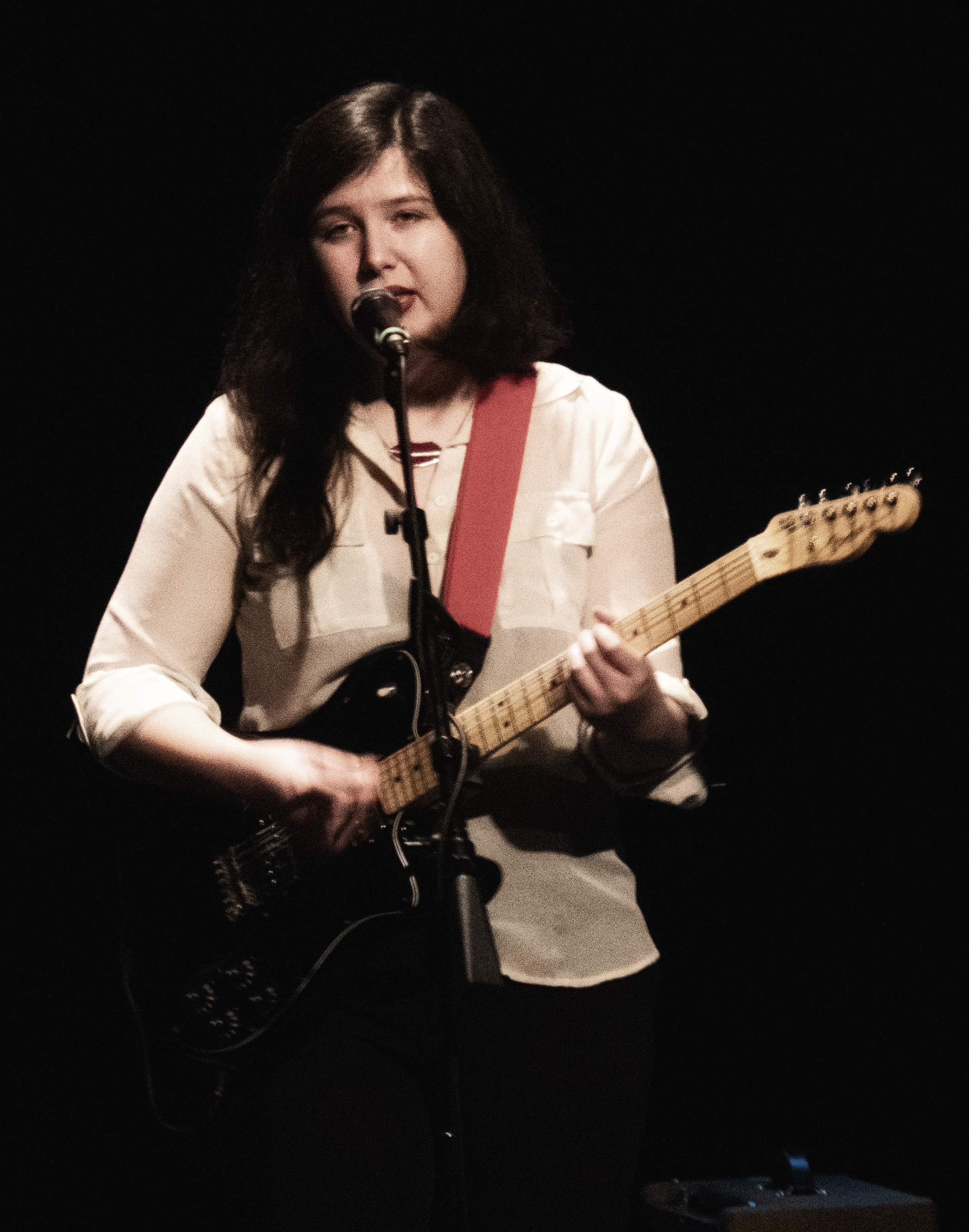 Lucy Dacus with boygenius